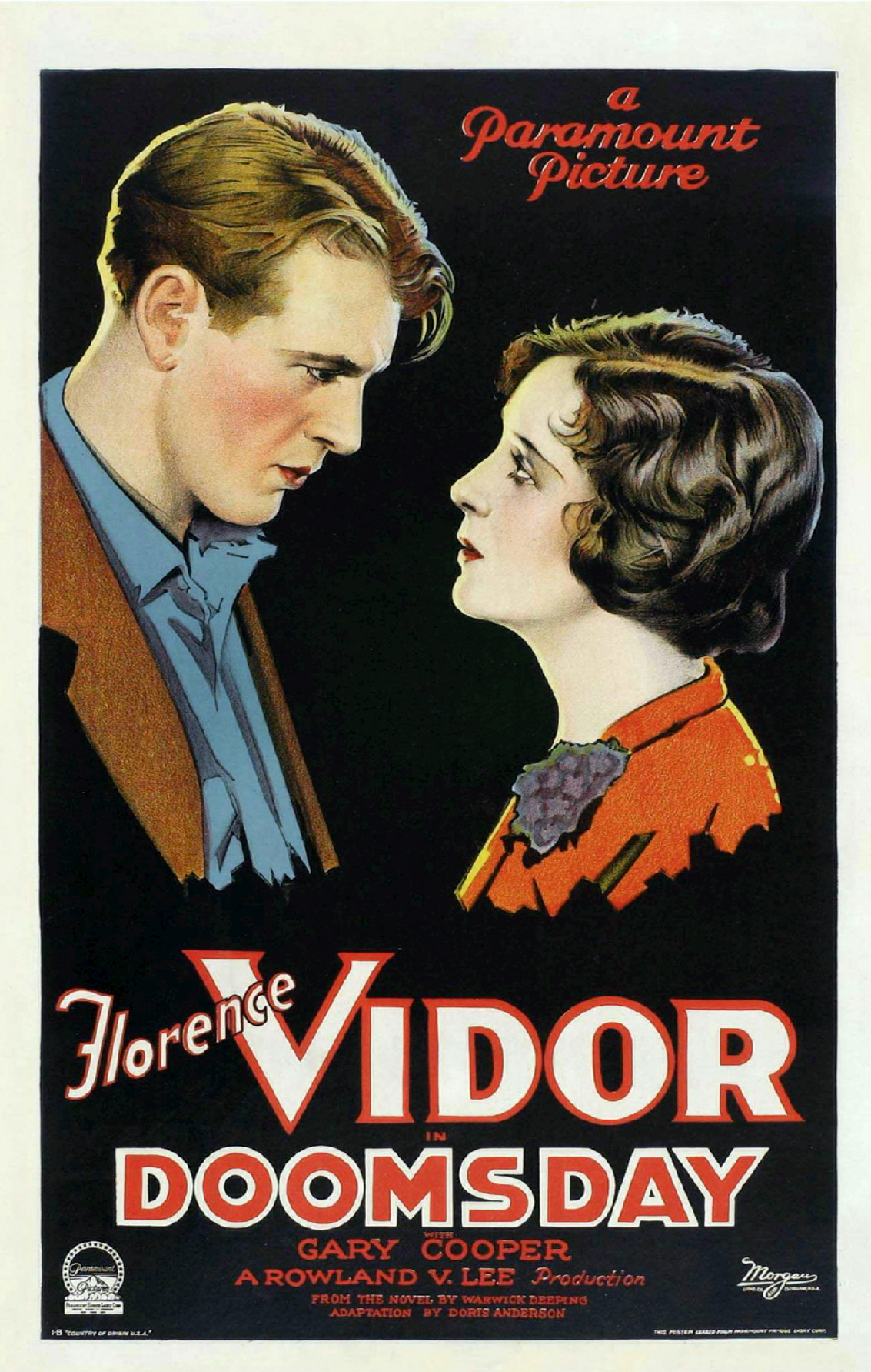 Poster for the 1928 film Doomsday. There are no copyright marks. At bottom left is 1-B Country of origin USA. At bottom left is This poster leased from Paramount Famous Lasky Corp.